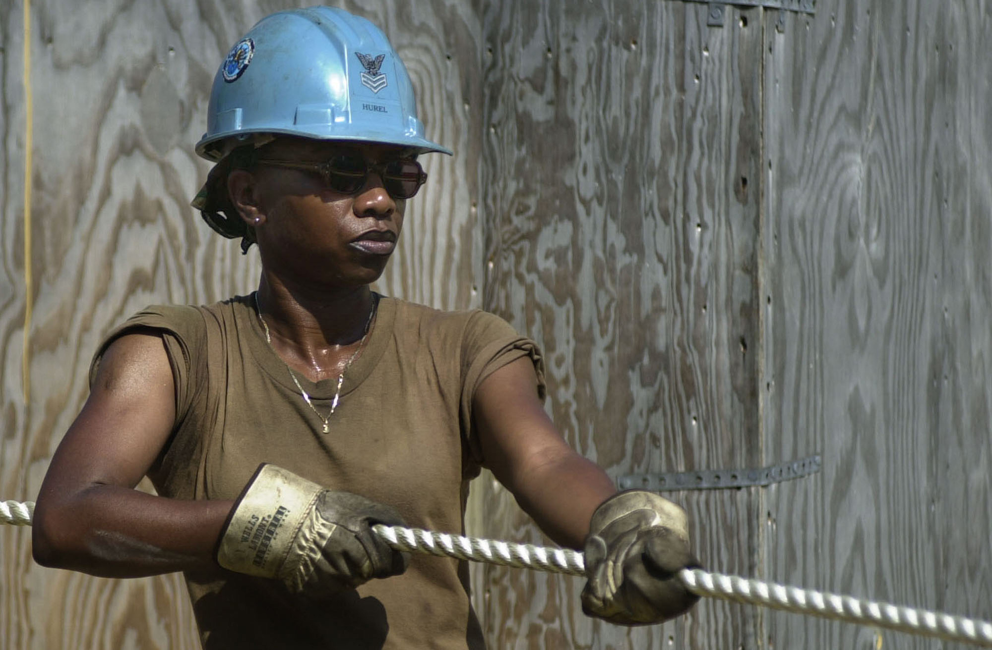 Sattahip, Chuk Samet, Thailand (May 3, 2002) -- Petty Officer 1st Class Cynthia Hurel, assigned to Navy Cargo Handling Force (NAVCHAPGRU), helps guide equipment during the offload onboard Motor Vessel (MV) 1st Lt. Jack Lummus, anchored off the coast of Chuk Samet. Cobra Gold 2002 is the 21st U.S. Pacific Command exercise conducted in Thailand demonstrating the ability of U.S. Forces to deploy rapidly and conduct Joint-Combined Operations with the Thai and Singapore Armed Forces. U.S. Navy photo by Photographer’s Mate 2nd Class Jennifer A. Smith. (REALEASED)